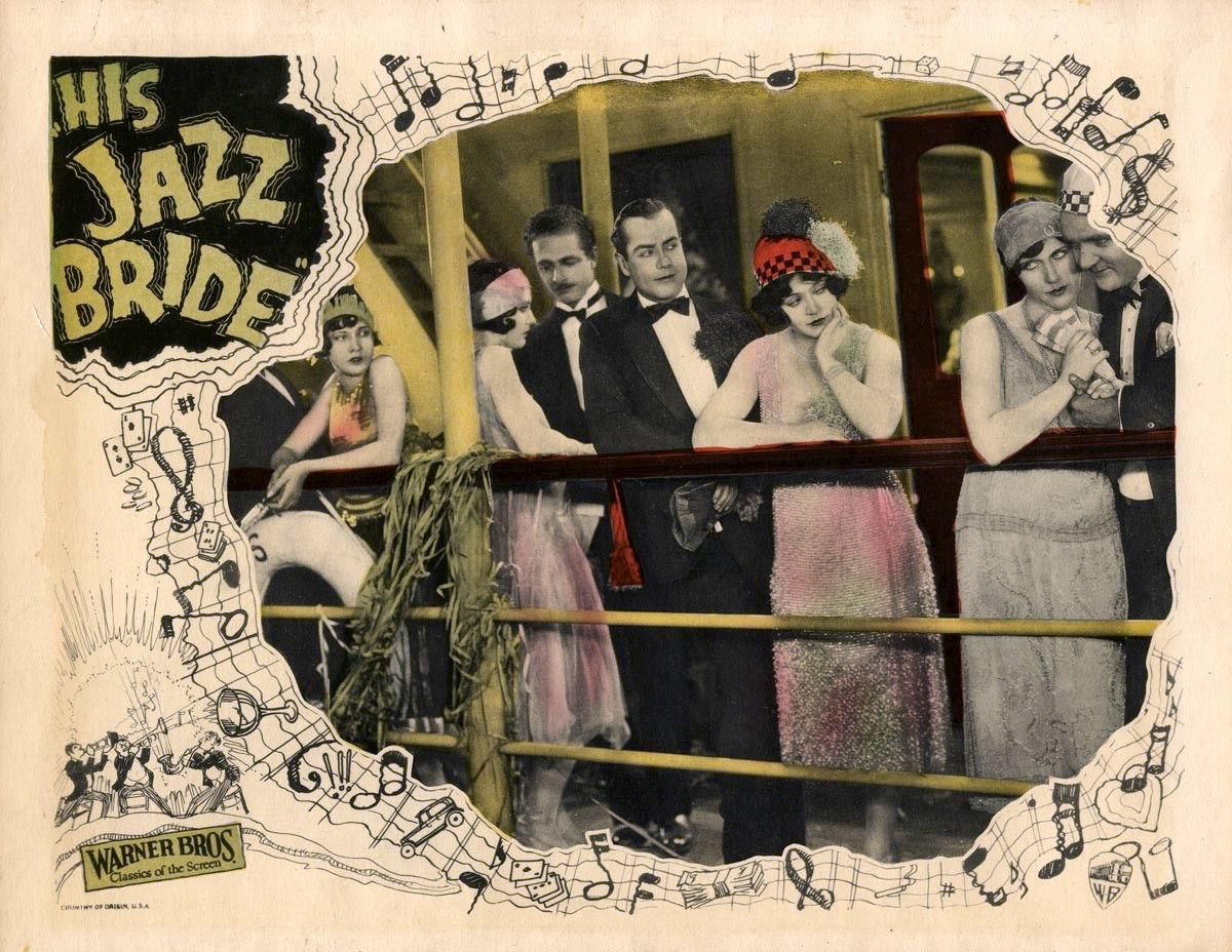 Lobby card for the American drama film His Jazz Bride (1926). The film is thought to be lost.